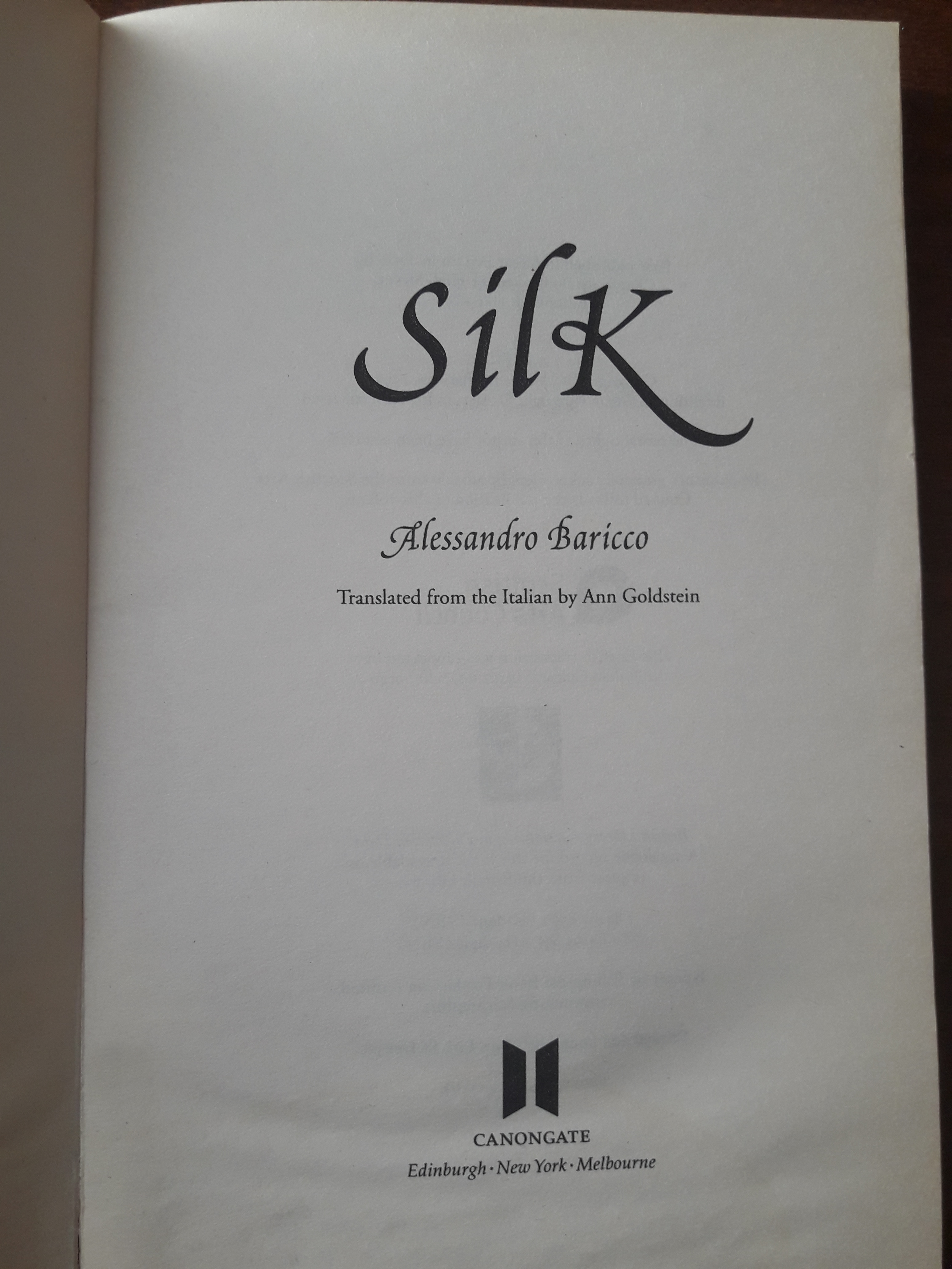 Silk Translated from the Italian by Ann Goldstein